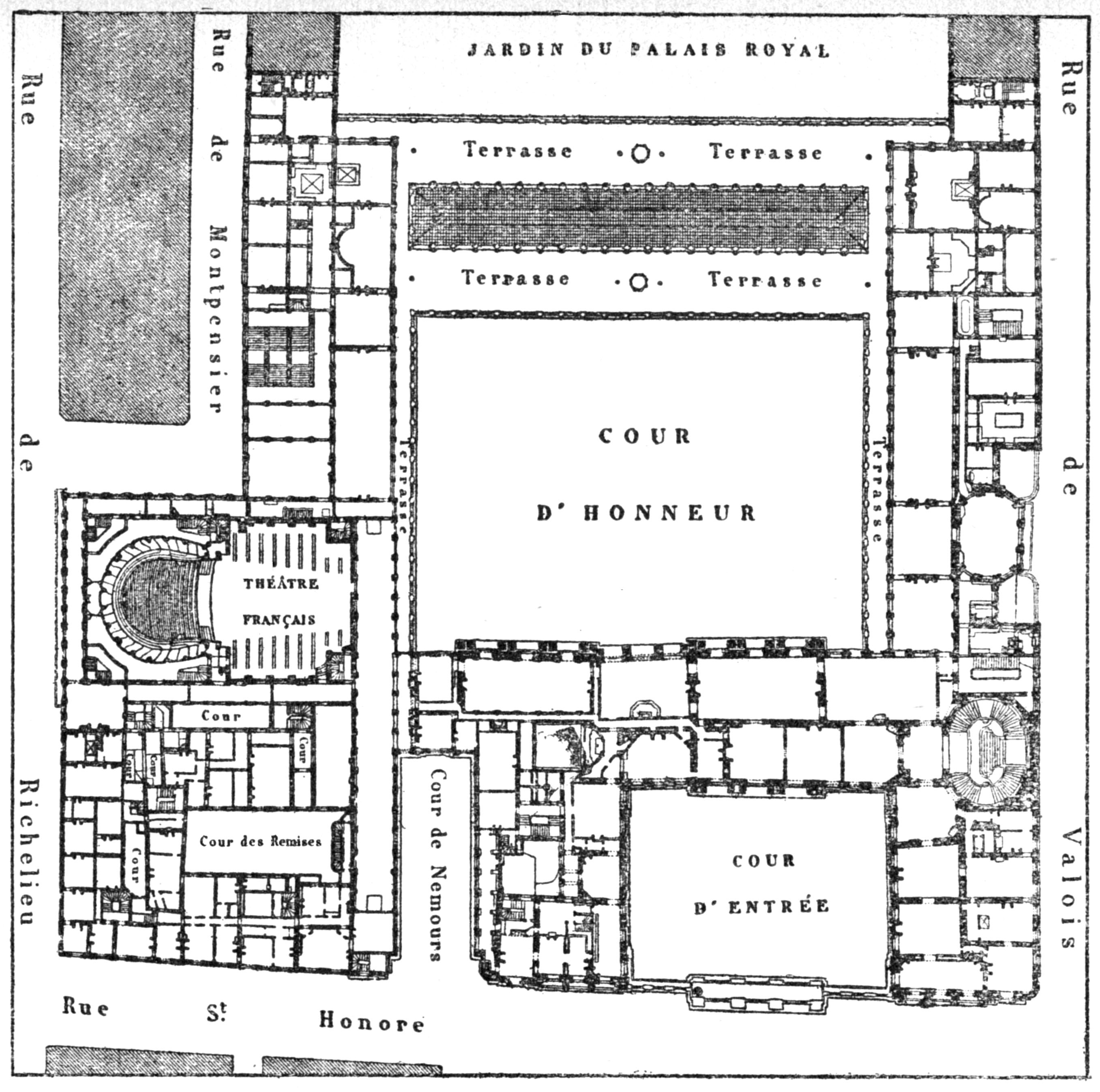 Plan of the main floor of the Palais-Royal in Paris after its restoration in 1833 to designs by Pierre-François-Léonard Fontaine in which the support facilities of the Théâtre-Français were enlarged (including the addition of the Cour des Remises); new galleries with terraces around the Cour d'Honneur were added; and the Galerie d'Orléans (between the court and the garden) was glazed.